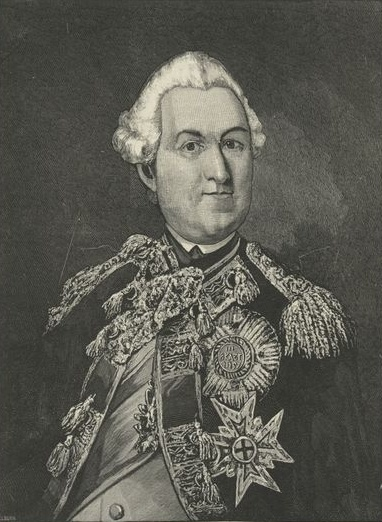 Engraved portrait of Richard Coote, 1st Earl of Bellomont, a colonial governor of New York, Massachusetts, and New Hampshire.